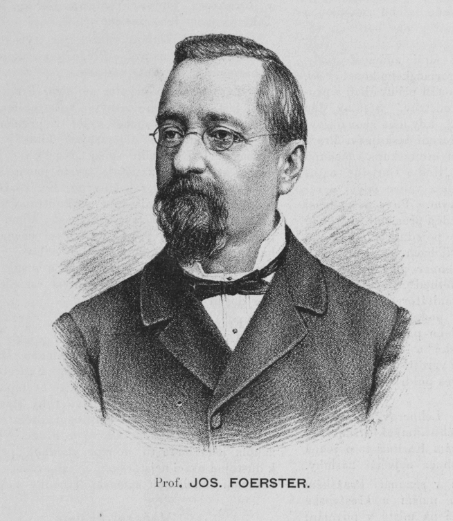 Portrait of Josef Förster (1833-1907), Czech teacher of music and composer, father of Josef Bohuslav Foerster (1859-1952).